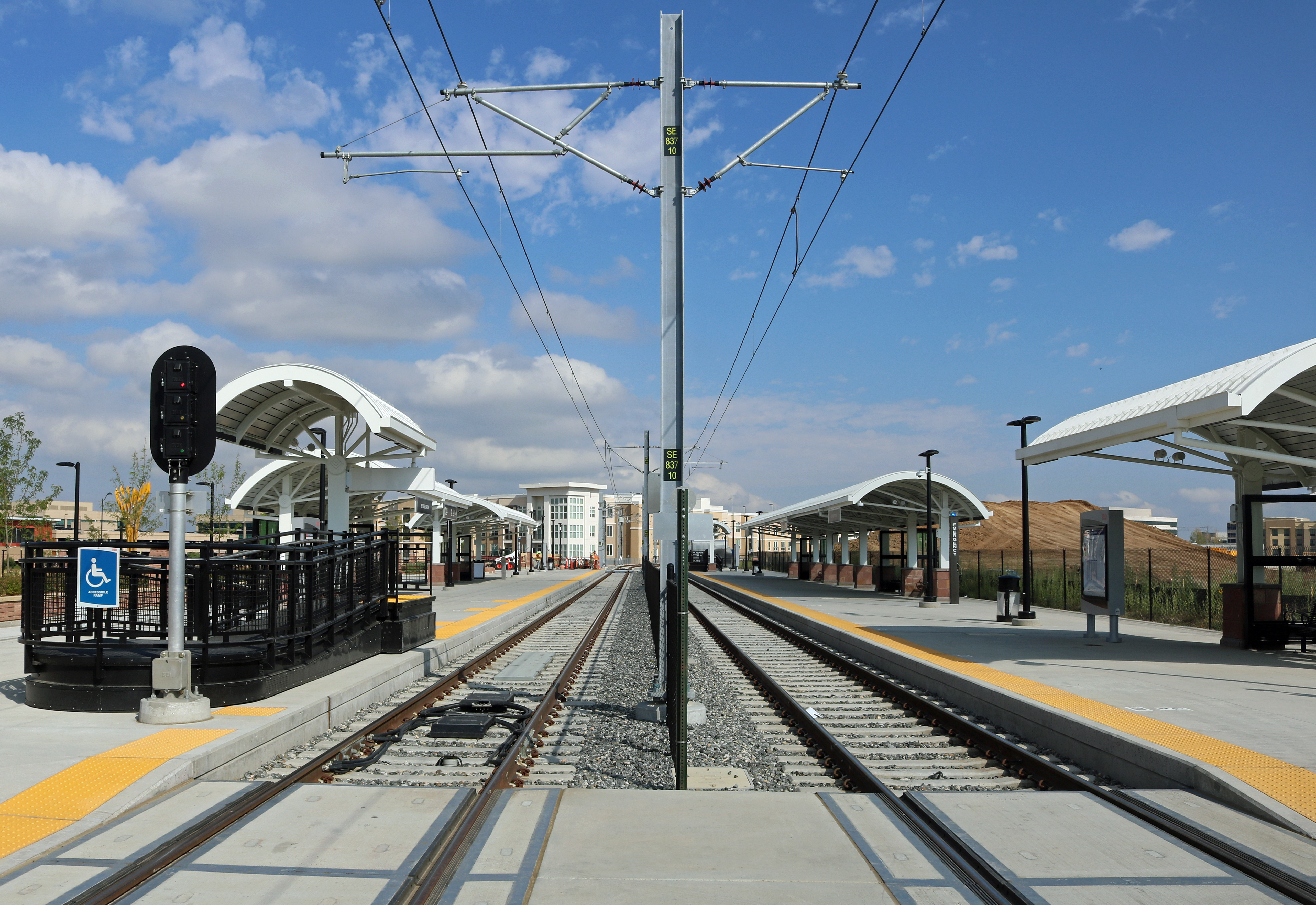 The RTD light rail Sky Ridge station, located at 9941 Trainstation Circle in Lone Tree, Colorado.